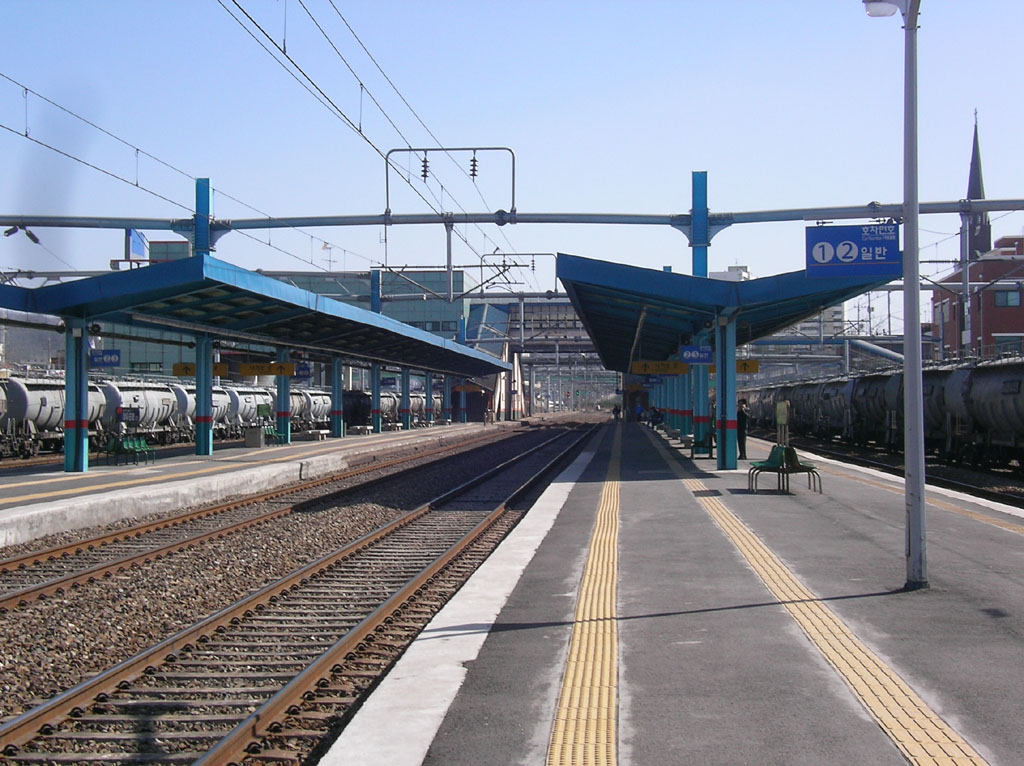 Sintanjin Station platform